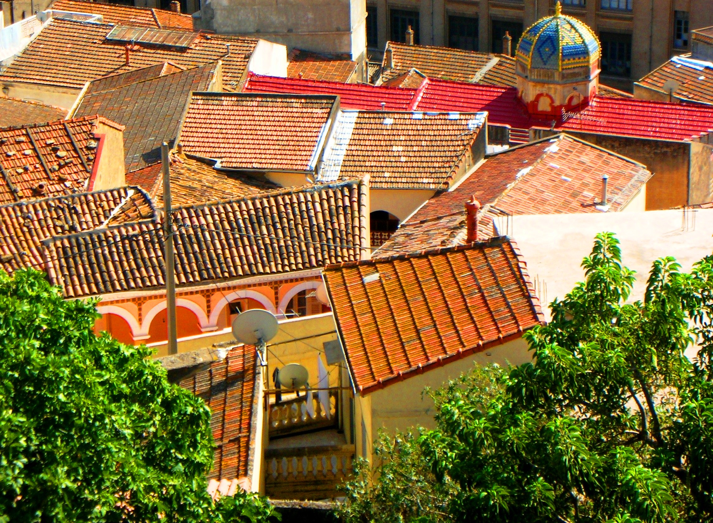 This picture was taken in Béjaïa, Algeria. This place was an old jewish district in Béjaïa. We can see on the top of one the roofs, the dome of a synagogue.